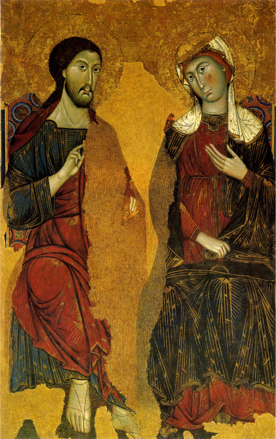 The Madonna and Christ Enthroned 114label QS:Len,"The Madonna and Christ Enthroned 114"label QS:Lru,"Ринальдо_да_Сиена"